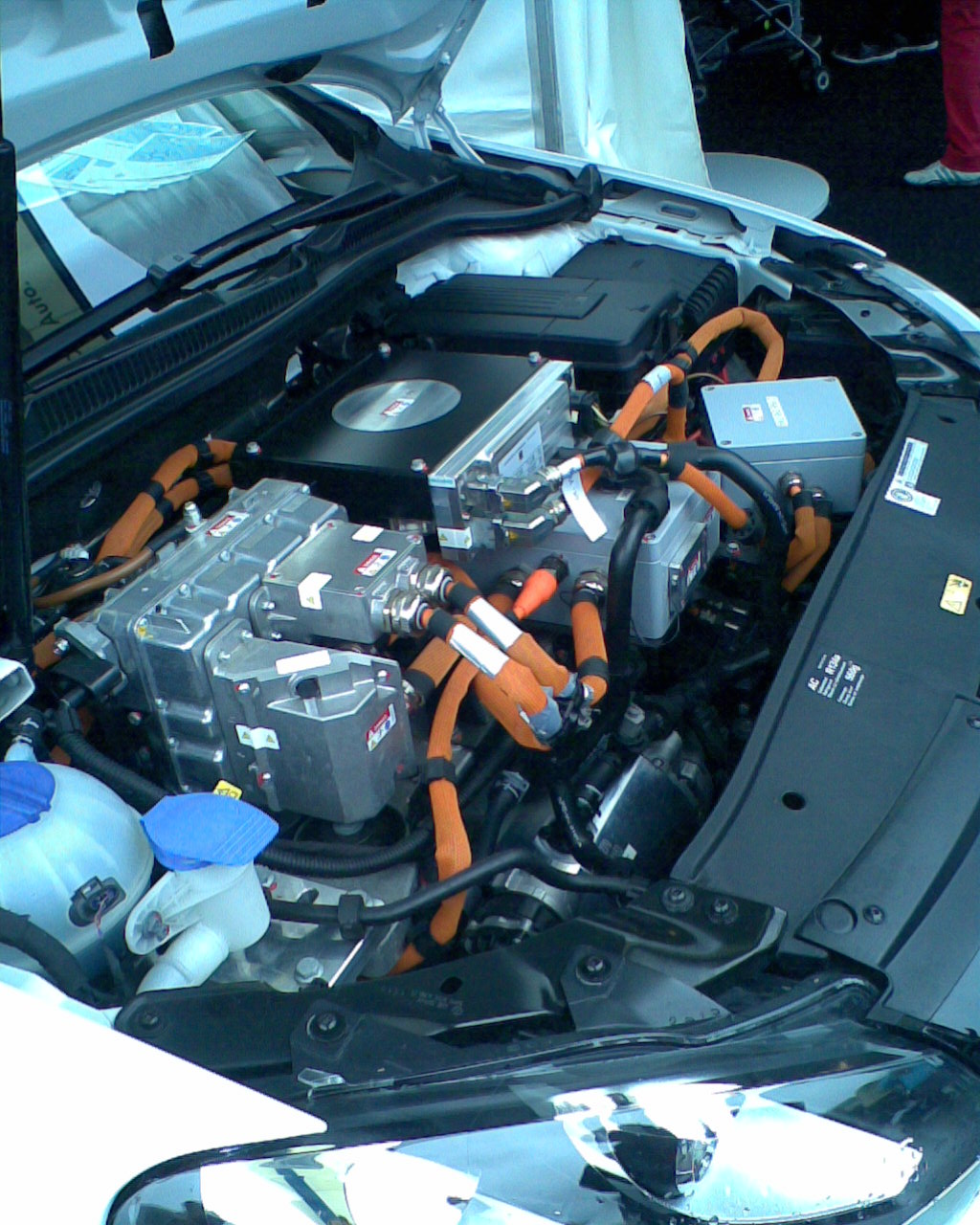 Volkswagen Golf Electric at the 2012 Stockholm Car Festival